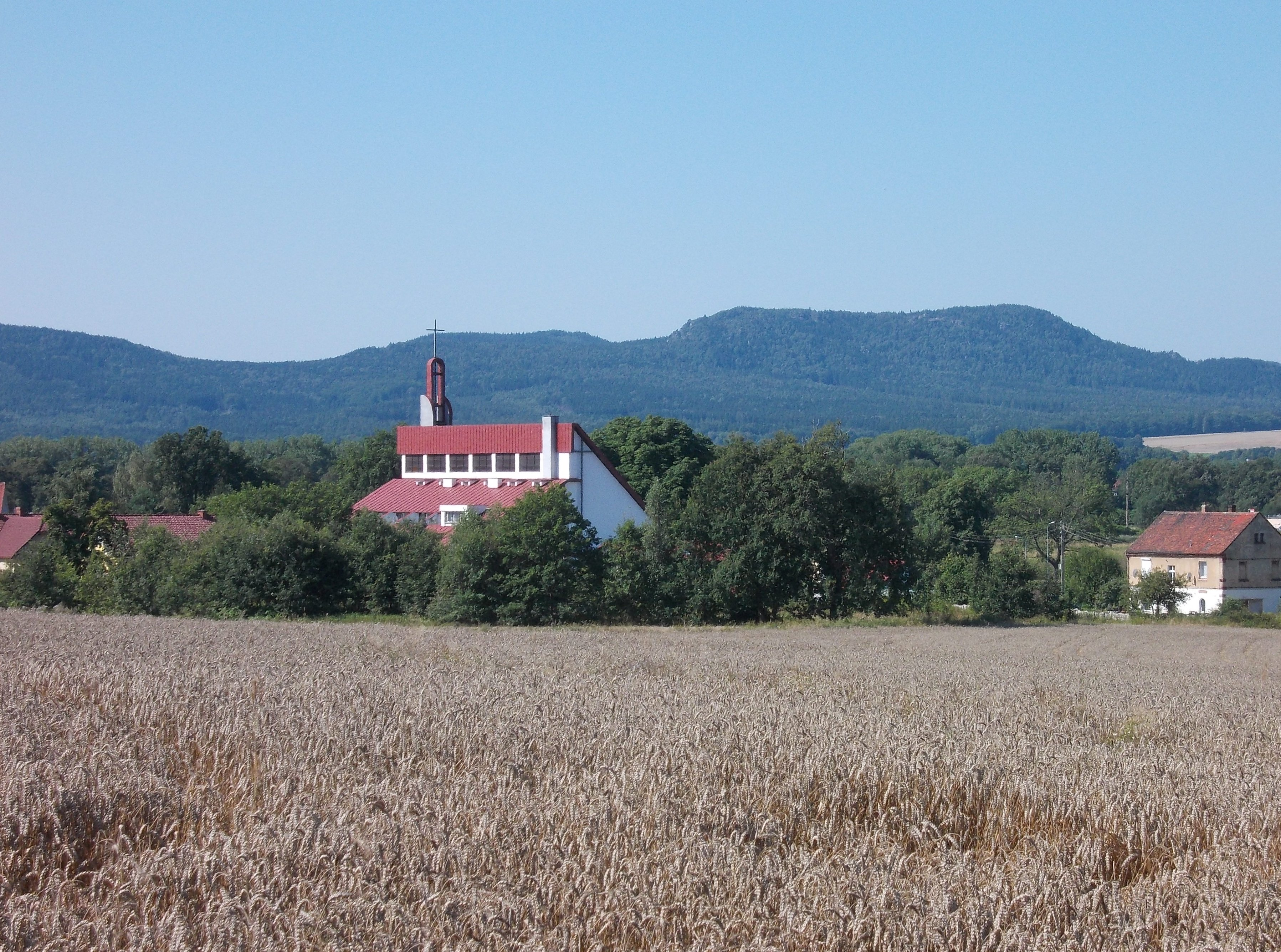 View of the Sacred Heart church in Porajów (municipality of Bogatynia)